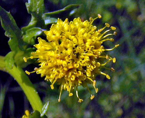 Sanicula arguta — Sharptooth sanicle. At Stunt Ranch, in the Santa Monica Mountains National Recreation Area, Southern California. NPS photo, no copyright.